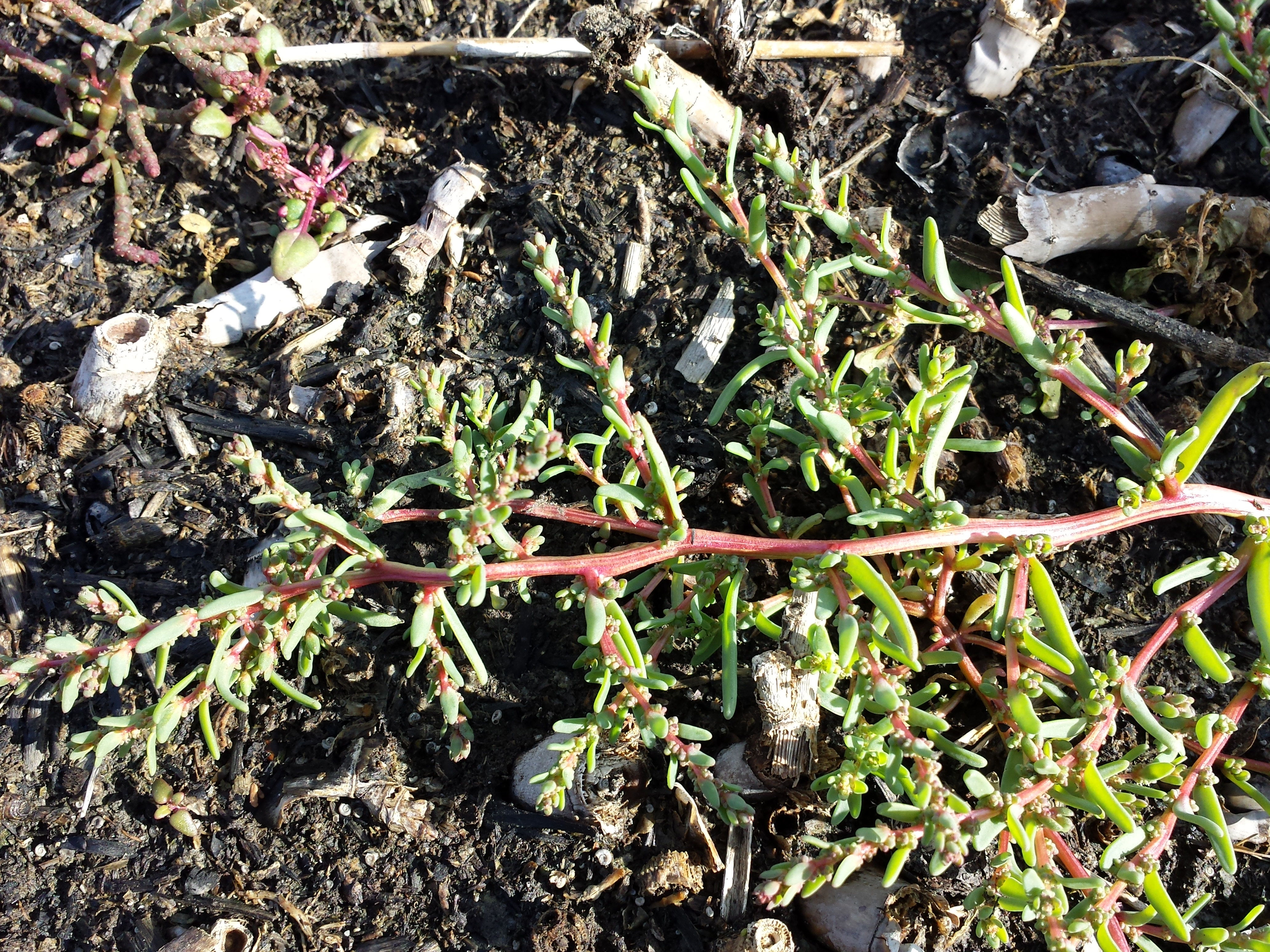 Habitus Taxon: Suaeda pannonica (sensu Fischer et al. EfÖLS 2008; det M. A. Fischer 2013-10-12) Location: small salt lake near Podersdorf, district Neusiedl am See, Burgenland, Austria - ca. 120 m a.s.l. Habitat: dried-out small salt lake